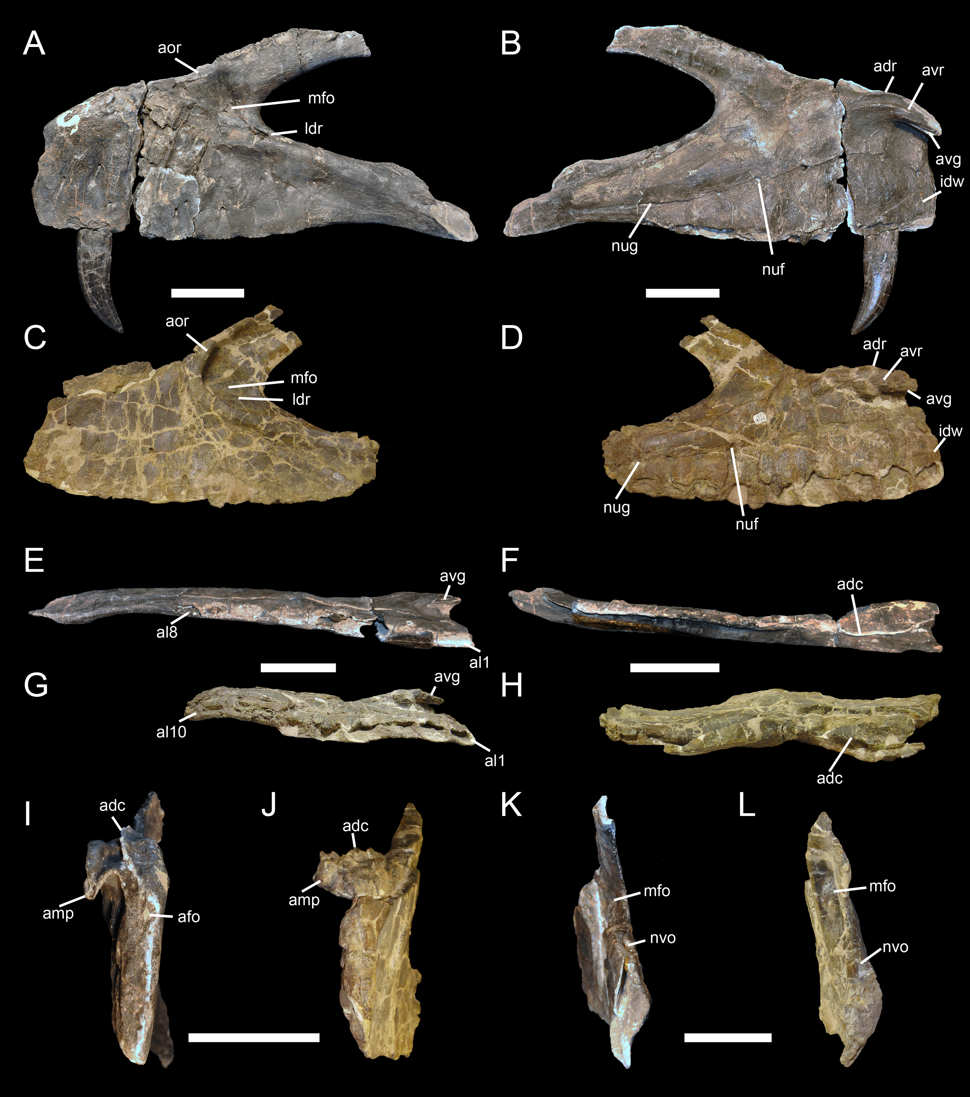 Comparison of the maxillae of Torvosaurus gurneyi and Torvosaurus tanneri. Left maxillae of the holotype specimen of Torvosaurus gurneyi (ML 1100) in A, lateral; B, medial; E, ventral; F, dorsal; I, anterior; and K, posterior views. Left maxillae of a specimen referred to Torvosaurus tanneri (BYUVP 9122) in C, lateral; D, medial; G, ventral; H, dorsal; J, anterior; and L, posterior views. Abbreviations: adc, anterodorsal crest; adr, anterodorsal ridge of the anteromedial process; afo, anterior foramina; al1, first alveolus; al8, eighth alveolus; al10, tenth alveolus; amp, anteromedial process; aor, antorbital ridge; avg, anteroventral groove of the anteromedial process; avr, anteroventral ridge on the anteromedial process; idw, interdental wall; ldr, laterodorsal ridge within the anterior corner of the lateral antorbital fossa; mfo, maxillary fossa; nuf, nutrient foramina; nug, nutrient groove; nvo, neurovascular opening. Scale bars = 5 cm.